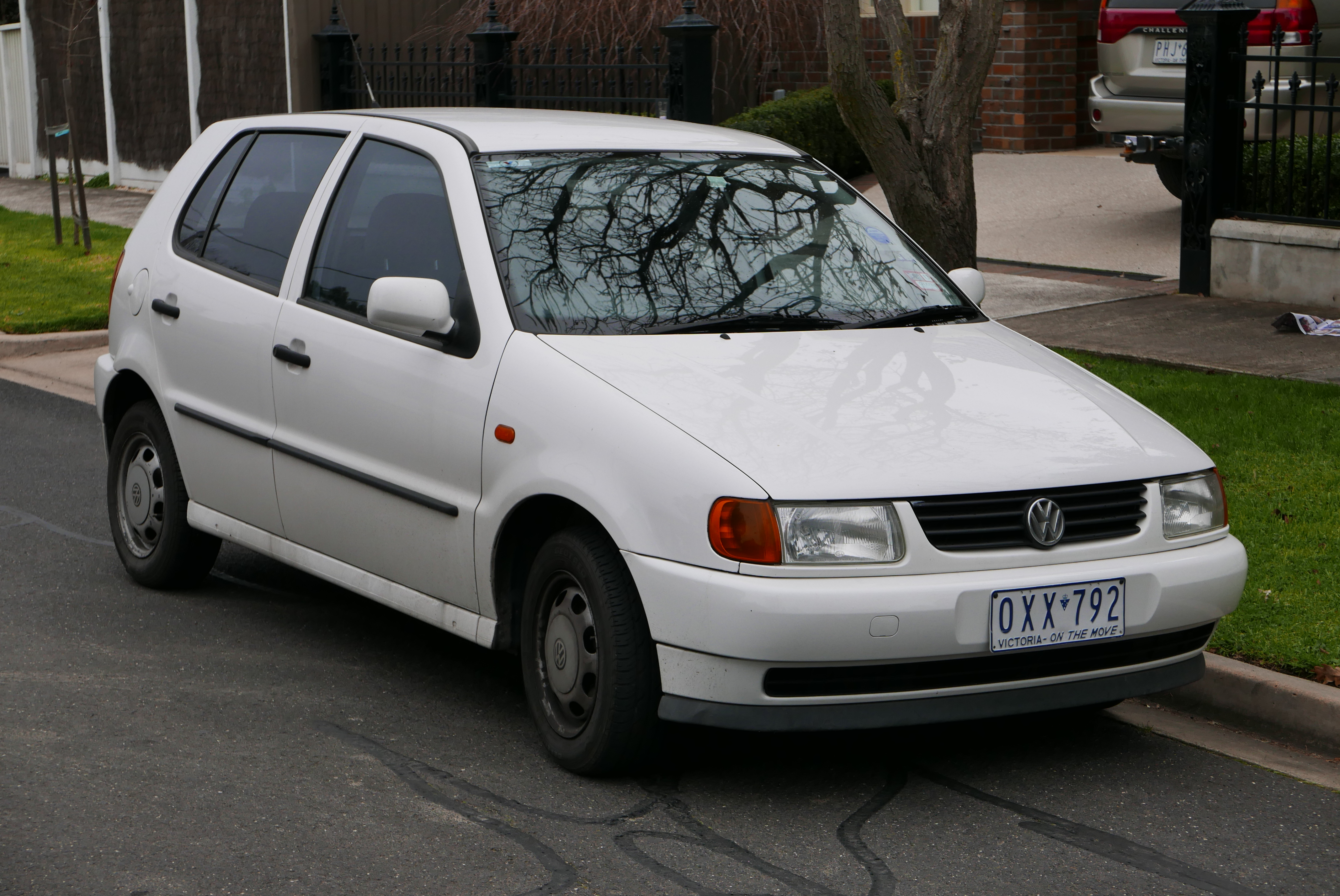 1997 Volkswagen Polo (6N) 5-door hatchback. Photographed in Ivanhoe, Victoria, Australia. Vehicle registration enquiry results Jurisdiction Victoria Registration OXX792 Chassis code WVWZZZ6NZWW004571 Engine code AEE475404 Compliance date 1997-07 Year of manufacture 19981 (not a typo)